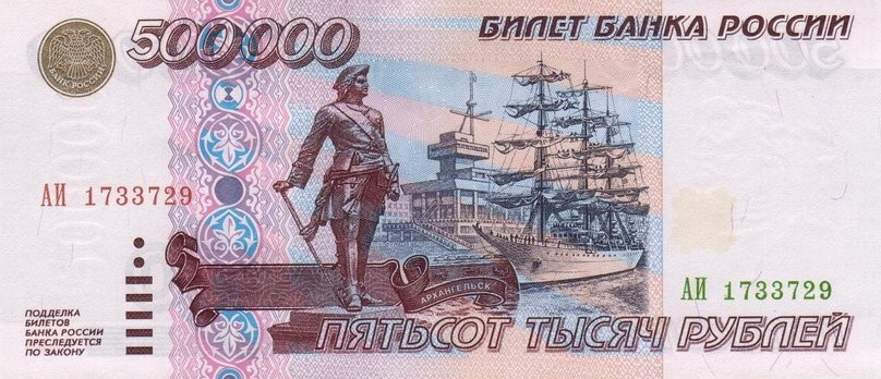 Russian banknote. 500 000 rubles. Version of 1995 year. Россия. Front